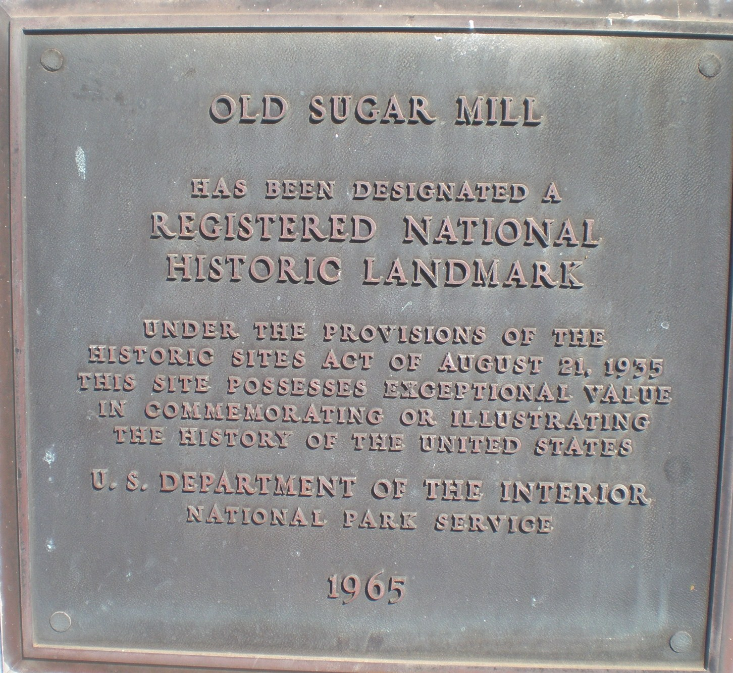 National Historic Landmark plaque, Old Sugar Mill Monument, Kōloa, Kauai, Hawaii